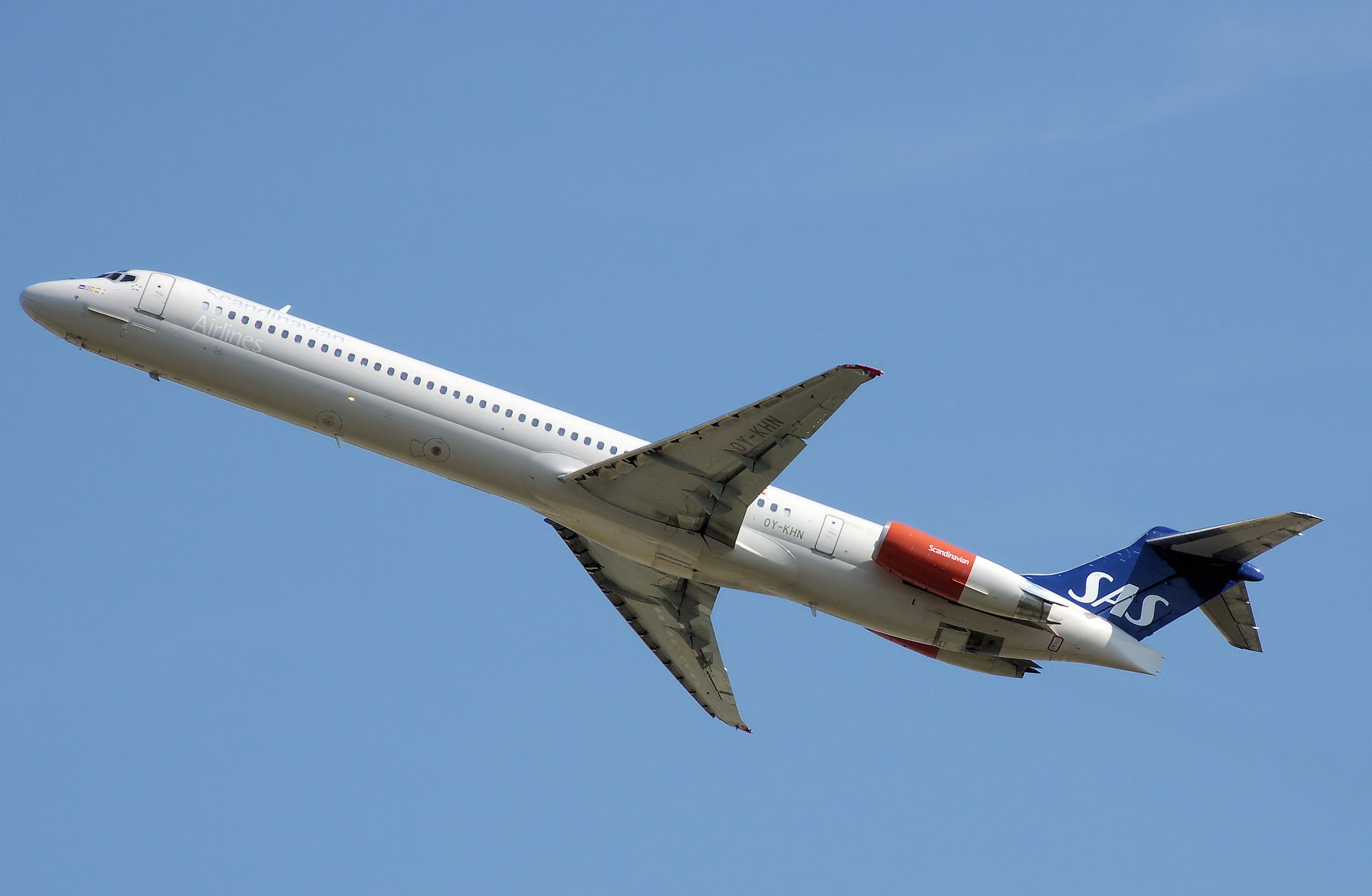 SAS McDonnell Douglas MD-81 (OY-KHN) taking off from London Heathrow Airport. Photographed by Adrian Pingstone in August 2007 and placed in the public domain.